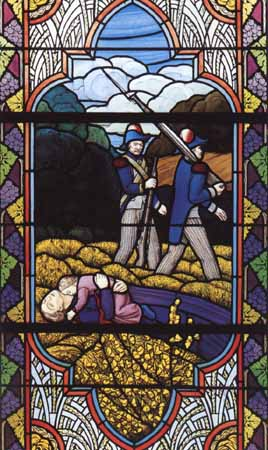 Stained-glass window of the Saint-Martin church in La Salle-de-Vihiers represinting two French republican soldiers fleeing the crime scene after havind killed a Vendéan woman and wounded her small daugher, the litte Jeanne Peneau.